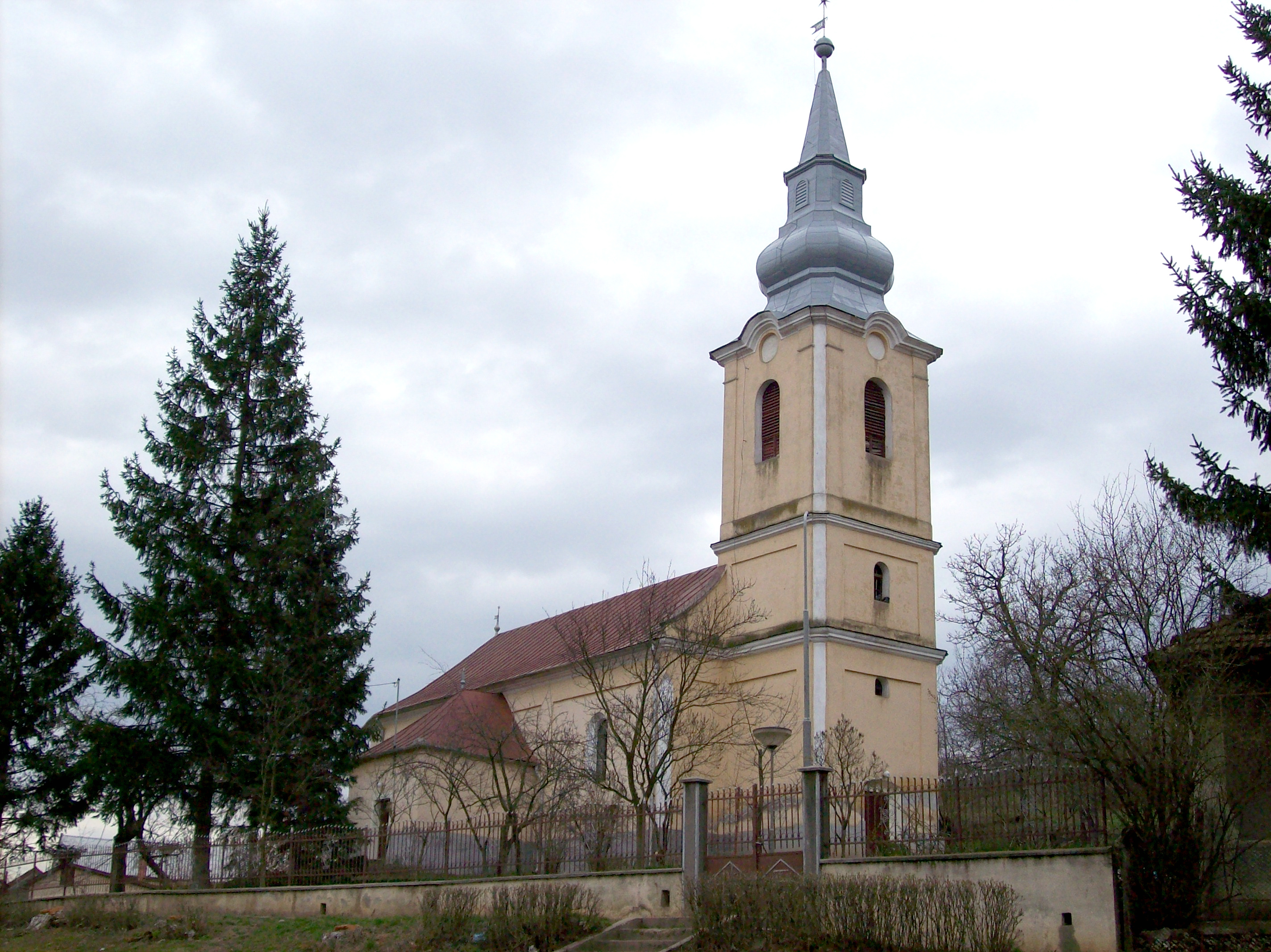 Reformed church of Târguşor, Bihor County